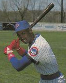 Professional baseball player Jerome Walton